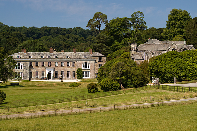 The Boconnoc Estate - Boconnoc House and parish church